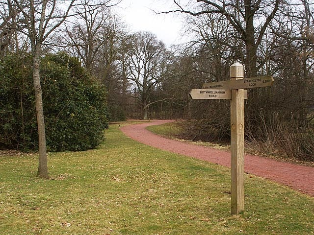 The Greenlink cycleway The cycleway is 4.5km route from the Aquatech in Motherwell to the Strathclyde Park